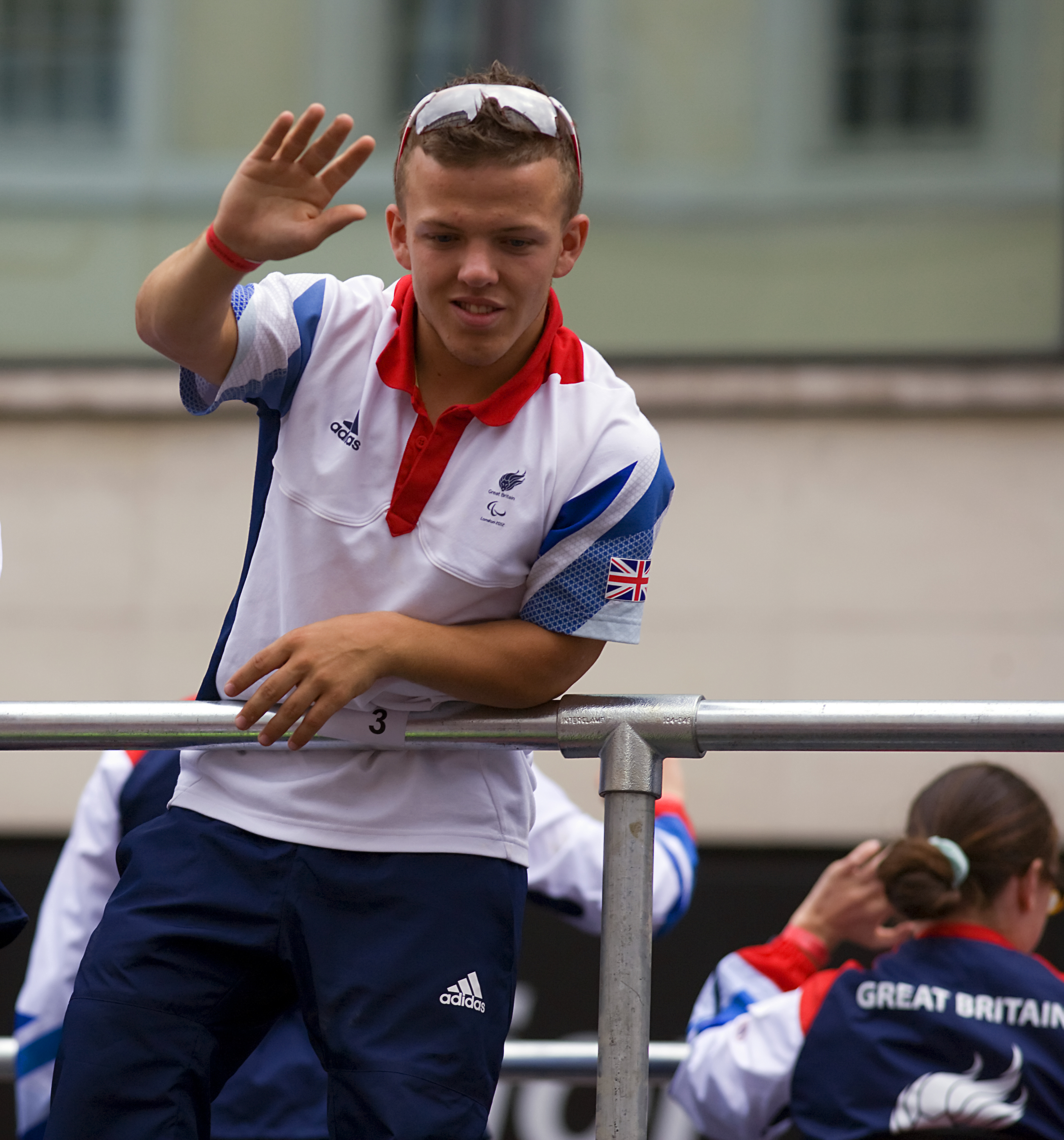 London 2012 Olympic & Paralympic Games Victory Parade, 10th September